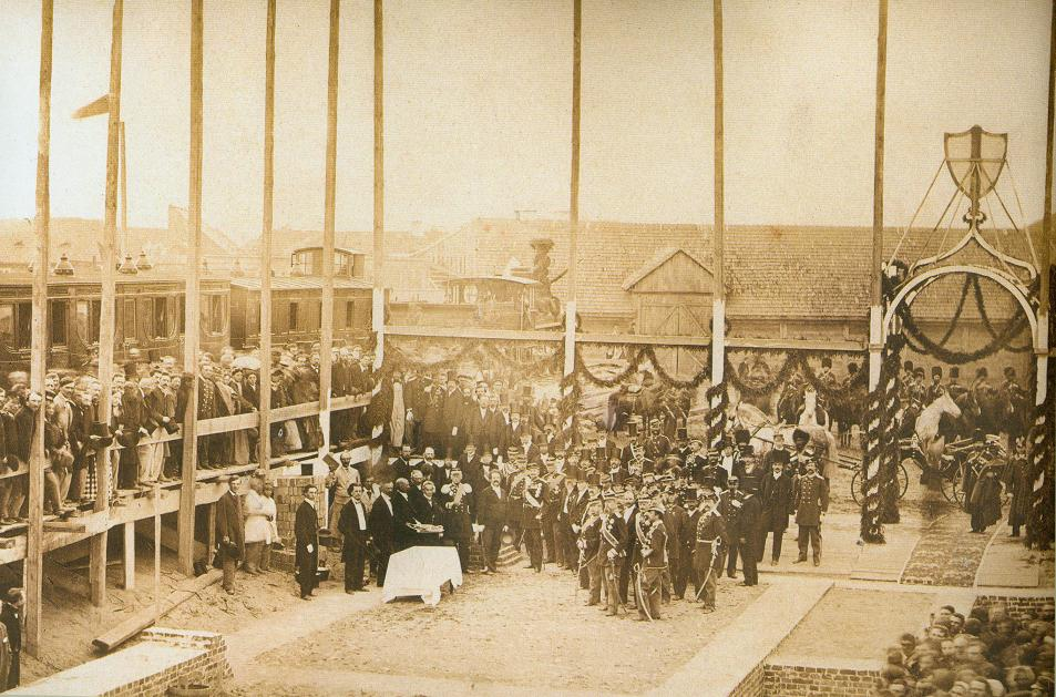 Terespol Train Station in Warsaw Scaned and uploaded by Robert Wielgórski (Barry Kent)